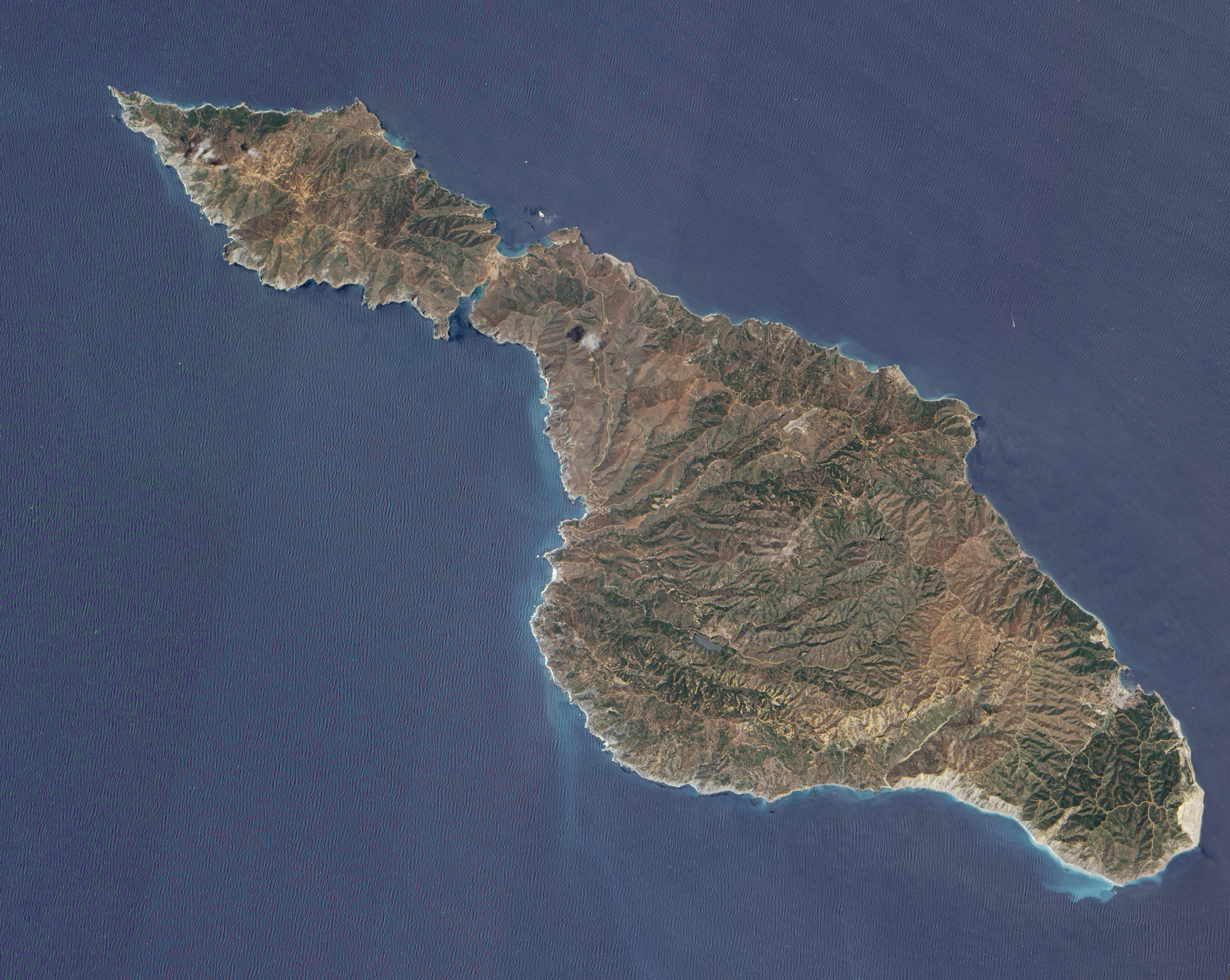 NASA EO-1 satellite picture of Santa Catalina Island, California